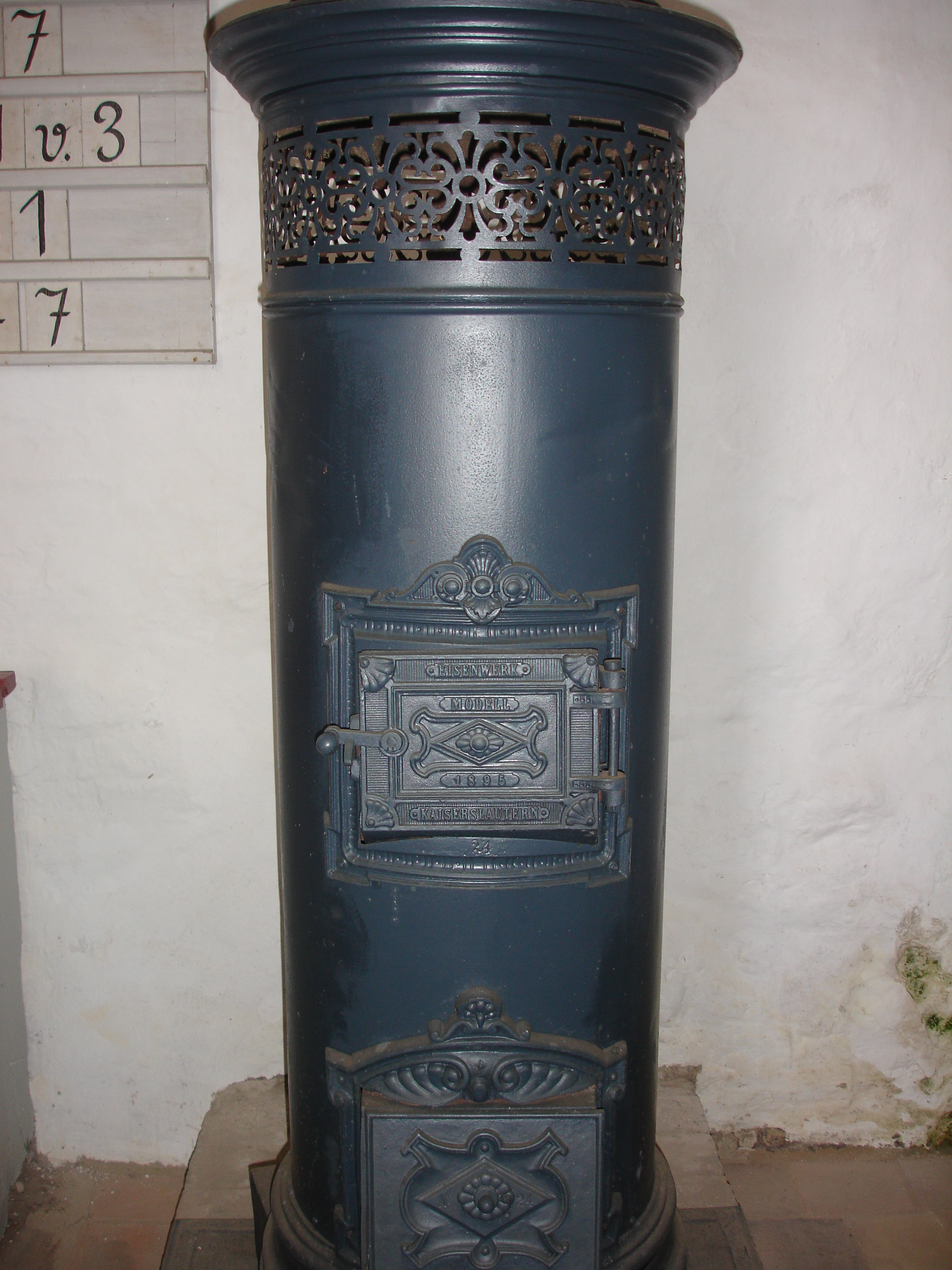 Church in Prestin, district Ludwigslust-Parchim, Mecklenburg-Vorpommern, GermanyOven